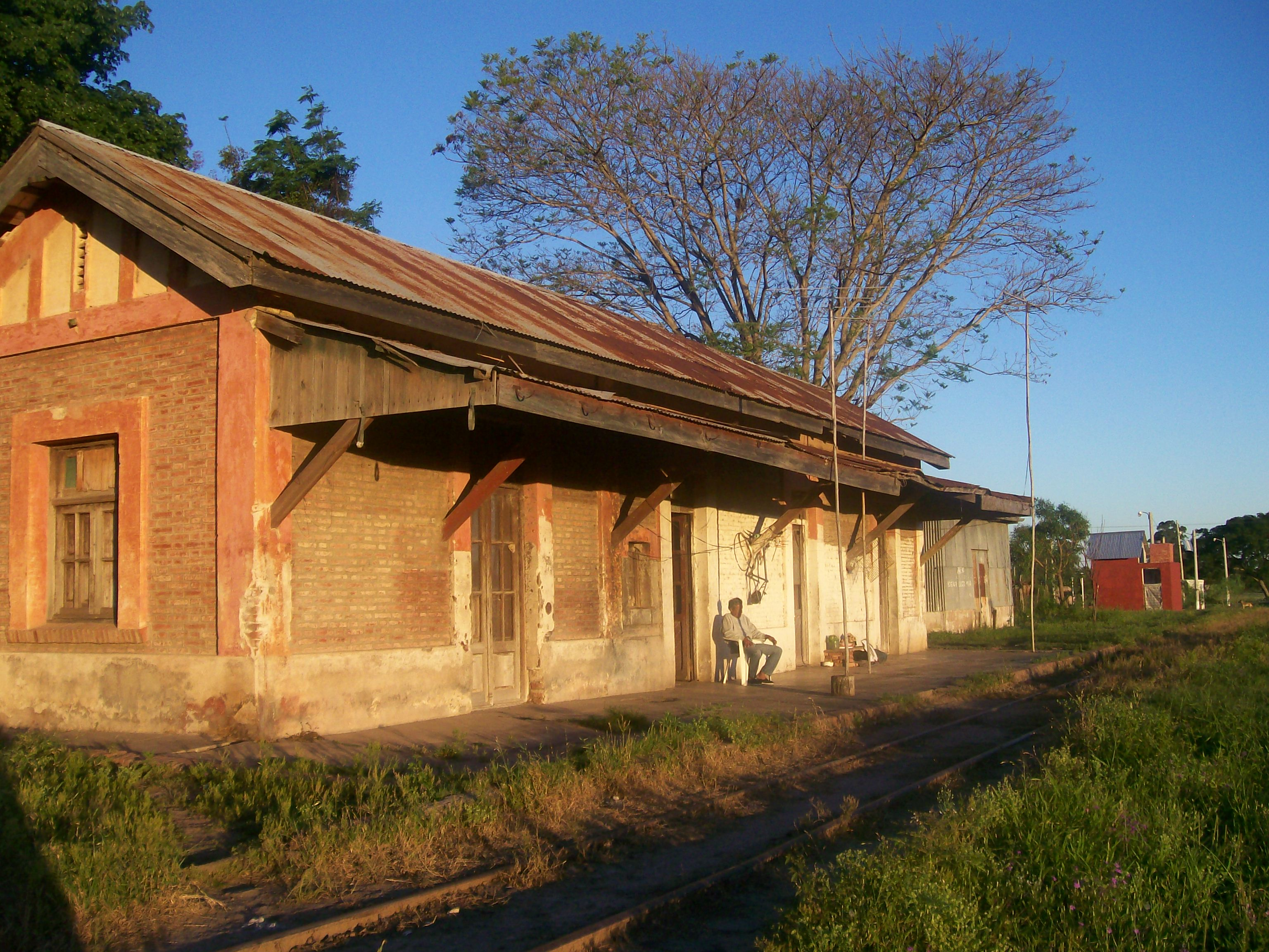 Train station in Laguna Blanca (Chaco Province, Argentina) seen from the railways.